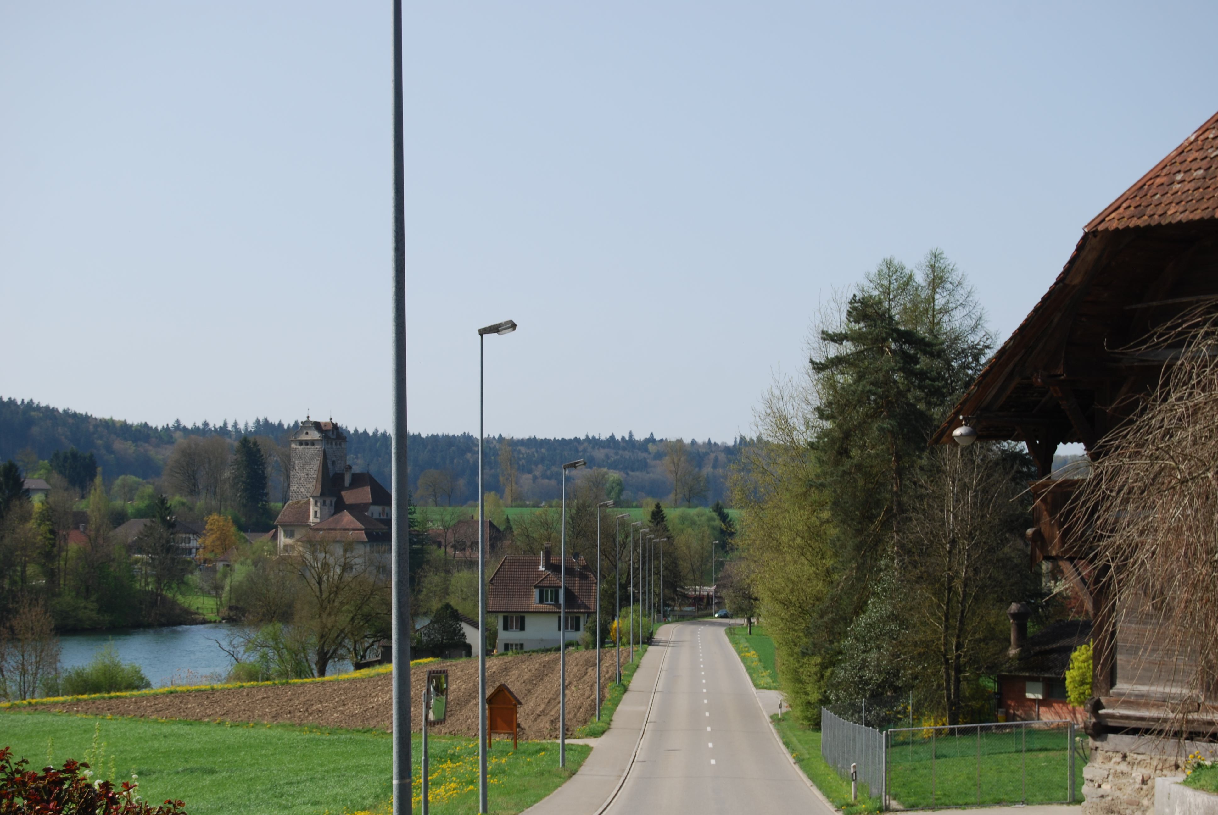 Castle Aarwangen, seen from Schwarzhäusern, canton of Bern, SwitzerlandEsperanto: Kastelo Aarwangen, vidita de Schwarzhäusern, Kantono Berno, Svislando